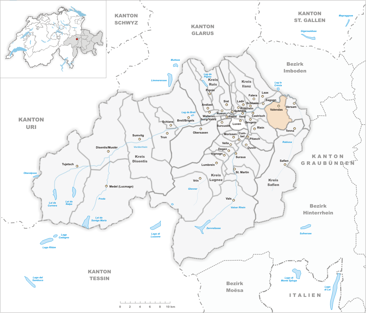 Municipality Valendas